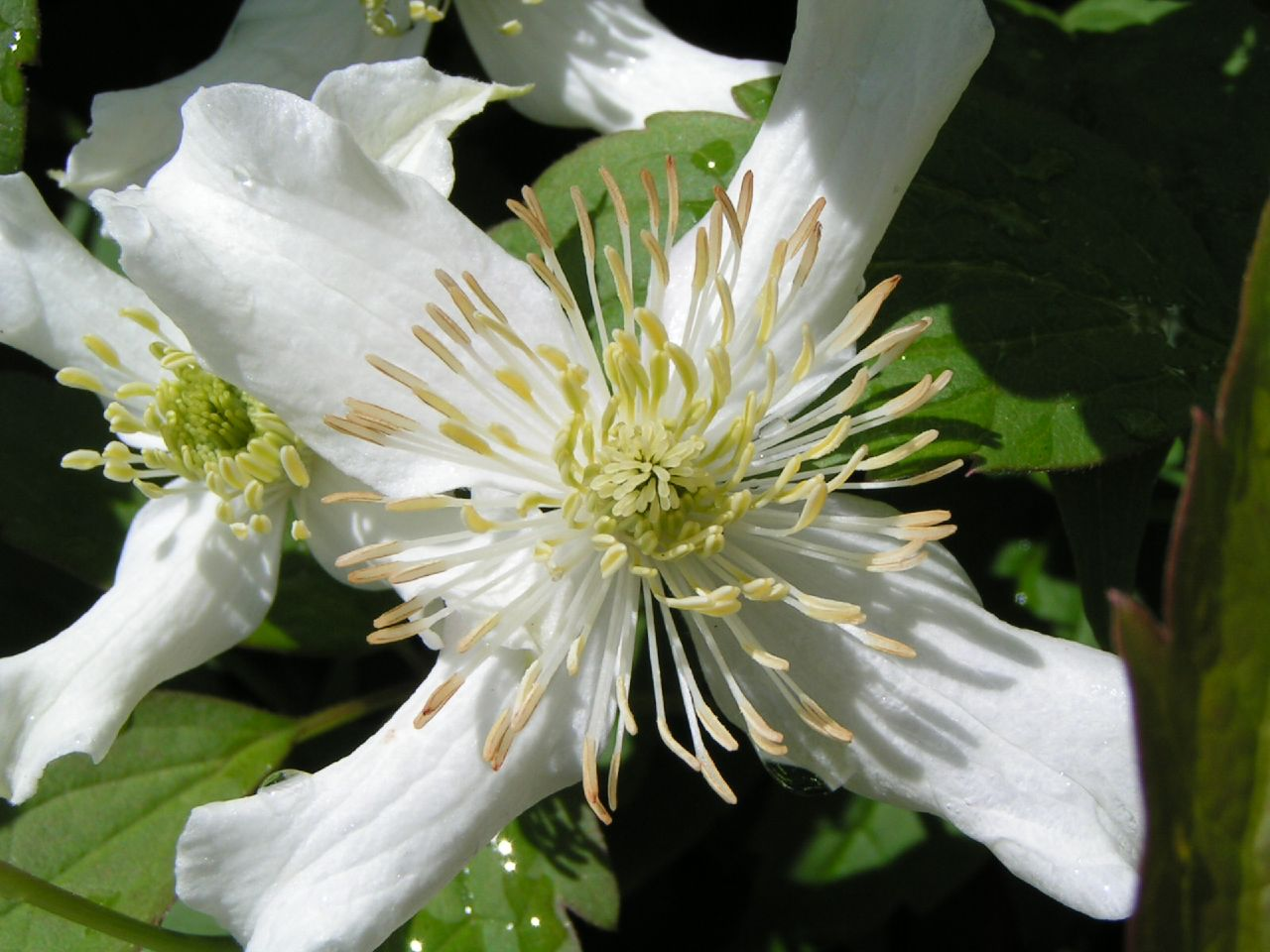 Clematis montana var. wilsonii